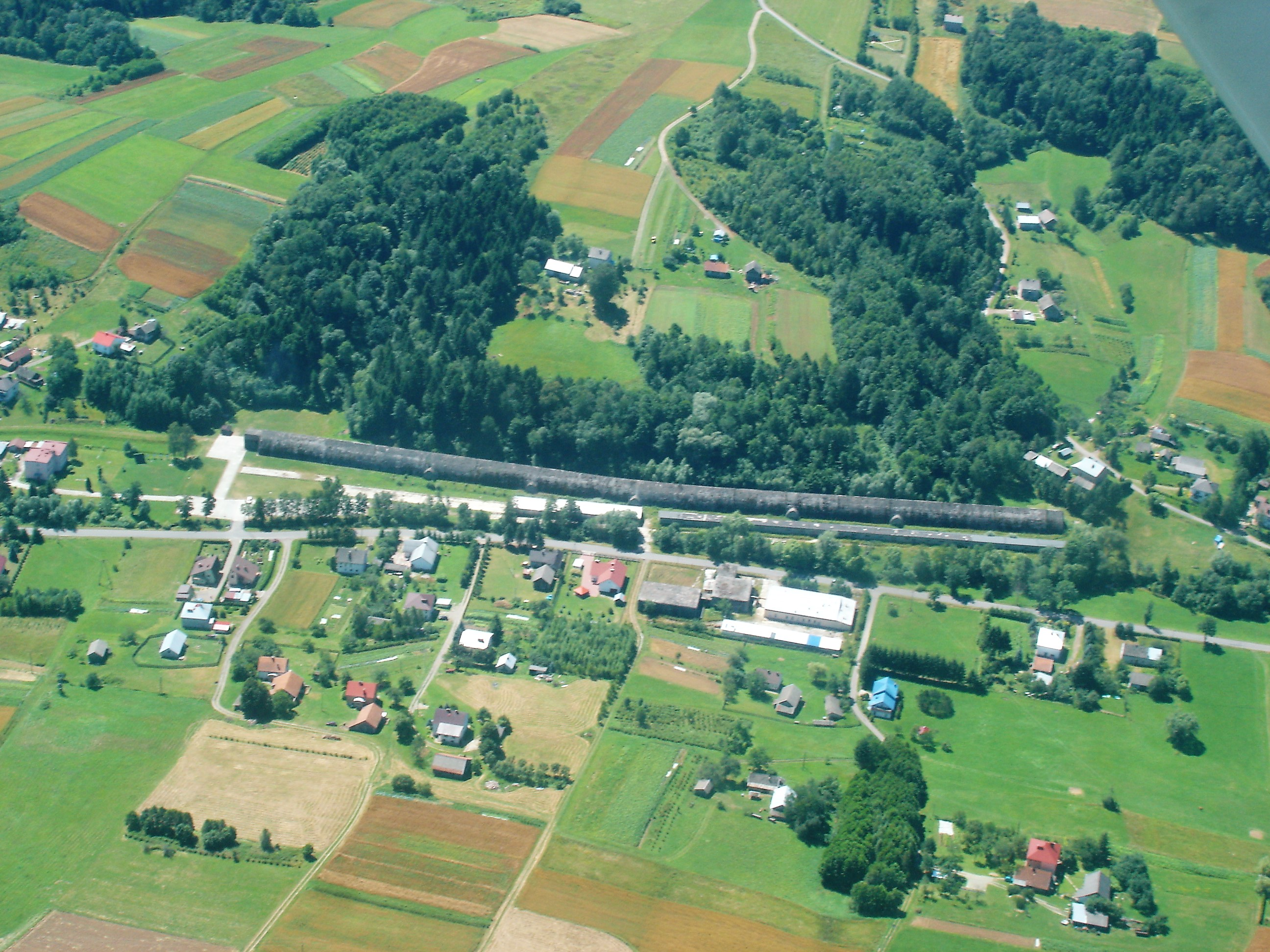 Train Bunker in Sępina